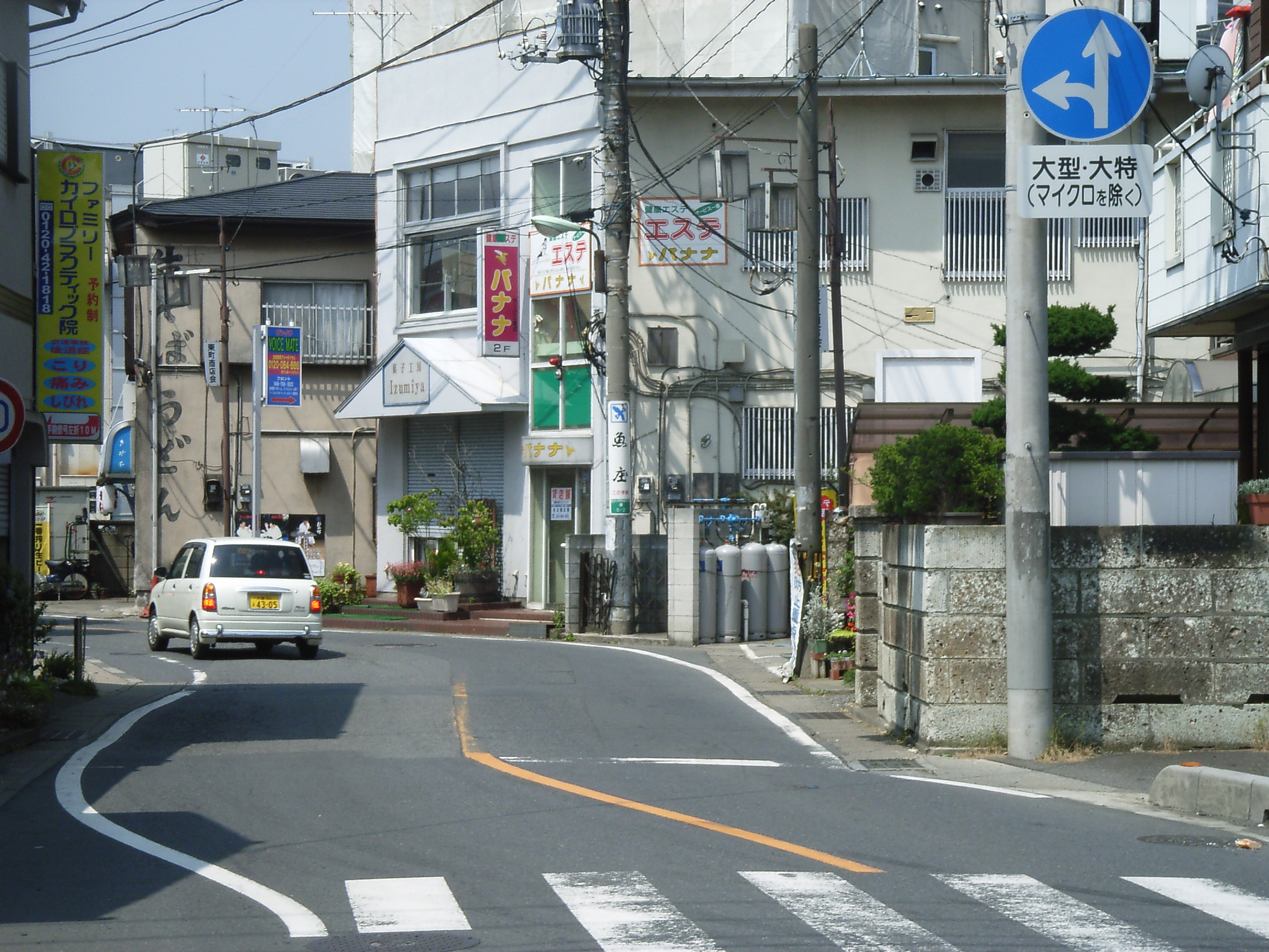 The Saitama Prefectural Road Route 154 on the border of Higashi 5-chome and Higashi 3-chome, Hasuda City. From the intersection with the National Route 122 toward southwest Higashi 5-chome